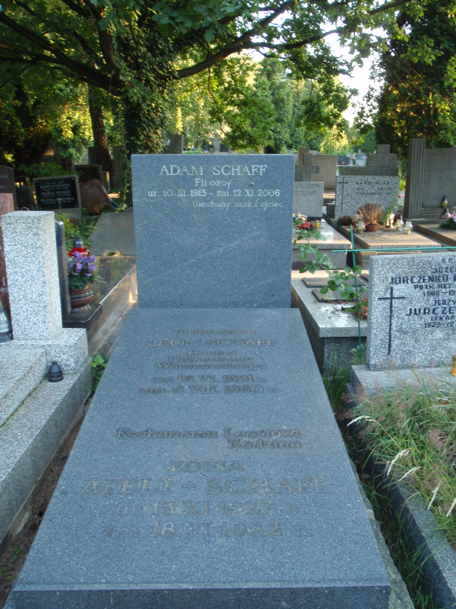 Grave of Adam Schaff